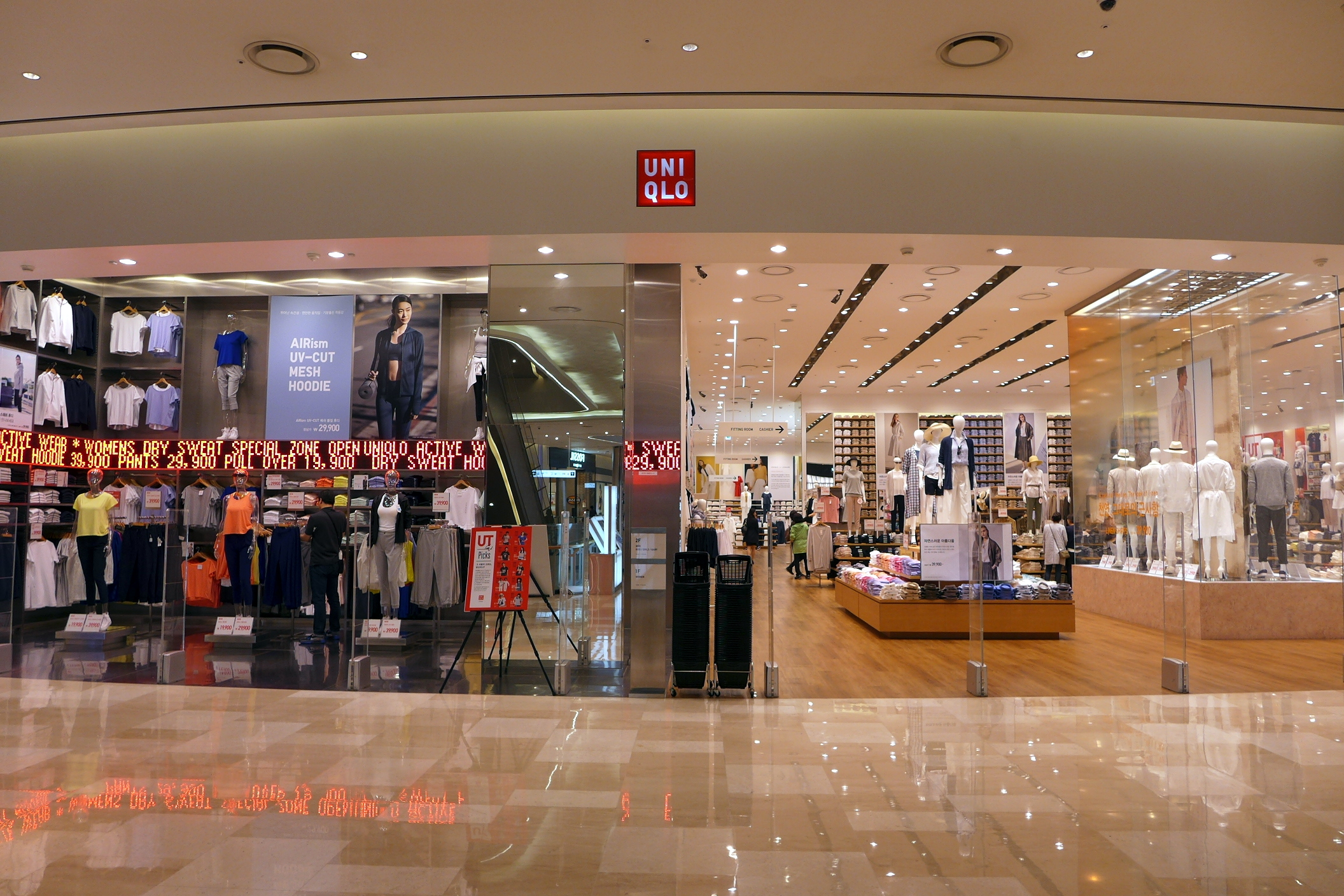 Uniqlo in Lotte World Mall, Seoul